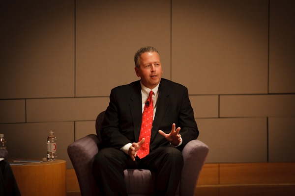 Photograph of Joseph DeSimone, Professor of Chemistry at the University of North Carolina at Chapel Hill, in the Chemical Heritage Foundation's History Live program, recorded November 22, 2010, at Research Triangle Park, Durham Country, North Carolina.